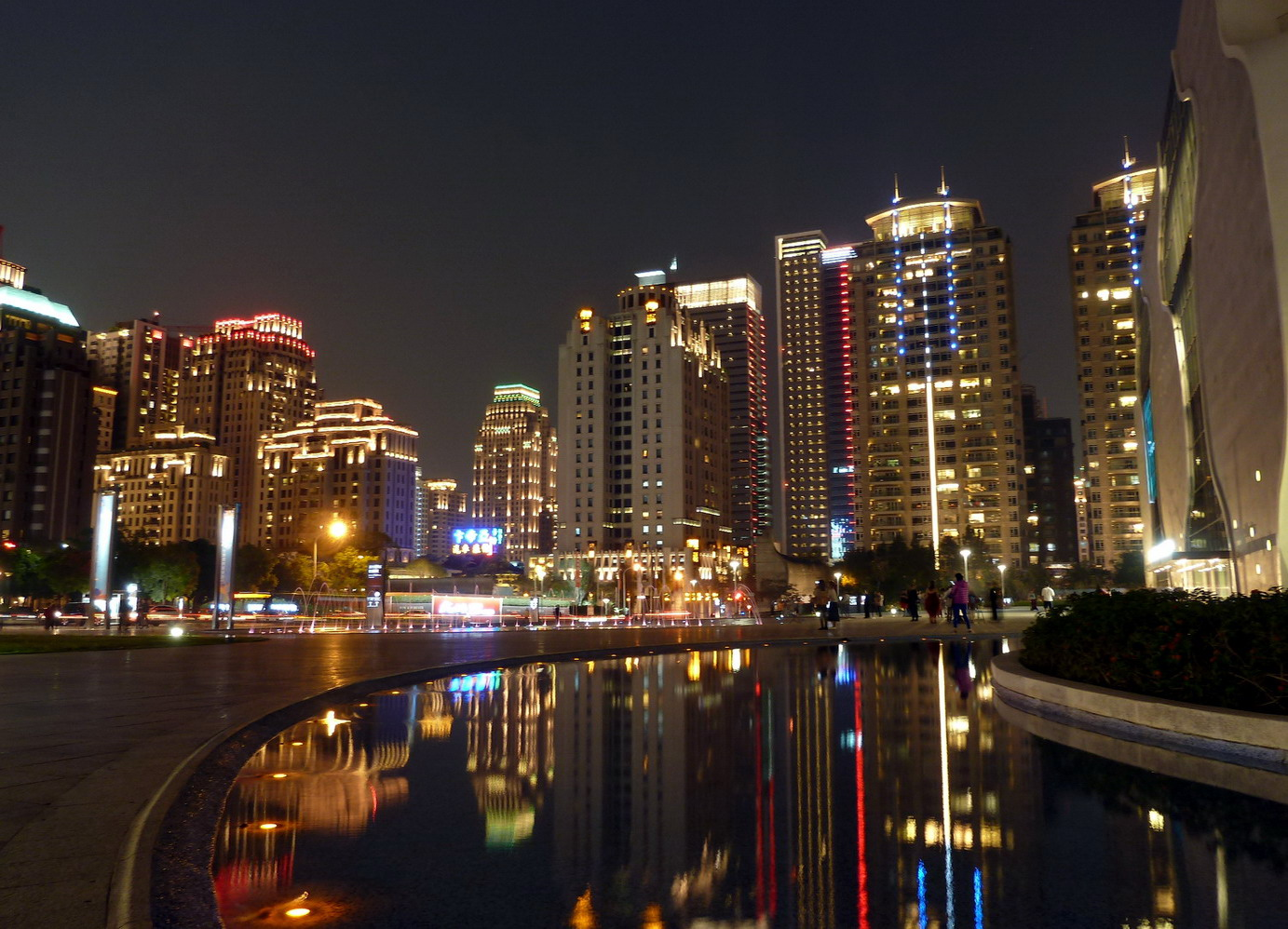 National Taichung Theater